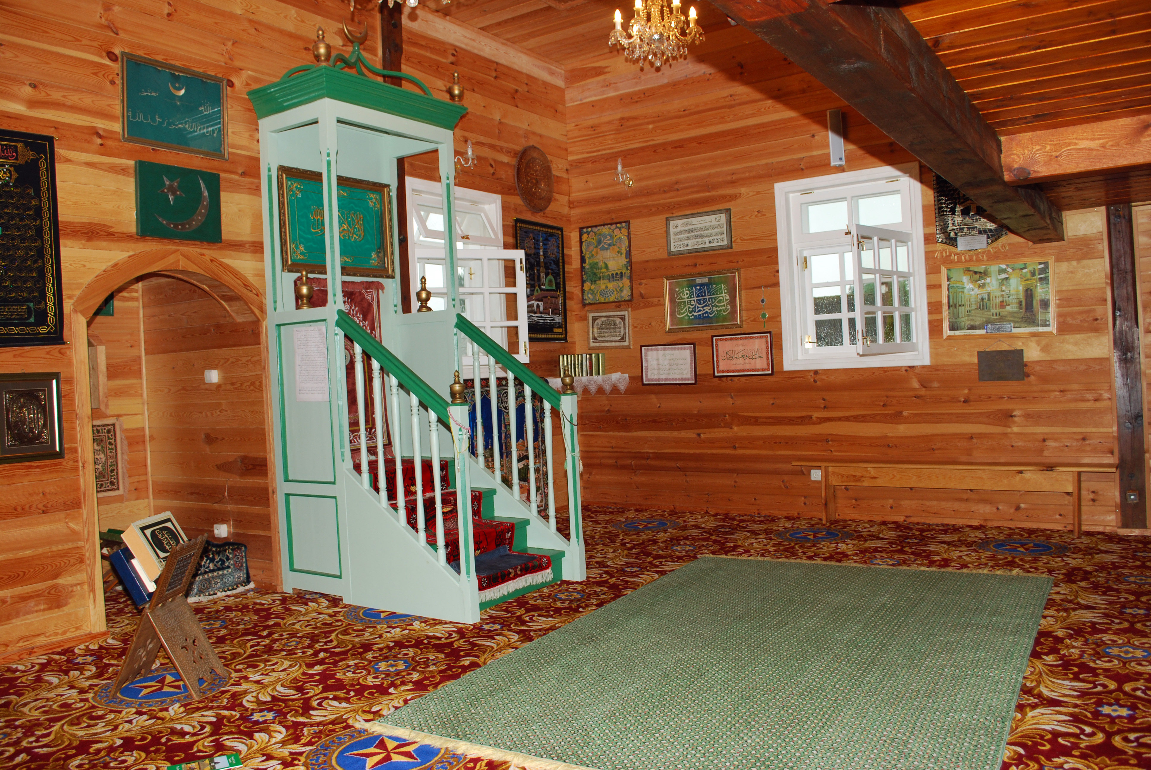 This photo from Podlaskie Voievodeship was taken during Polish Wikiexpedition 2009 set up by Wikimedia Polska Association. The making of this document was supported by Wikimedia Polska. Meczet w Bohonikach - wnętrze - widok z dołu